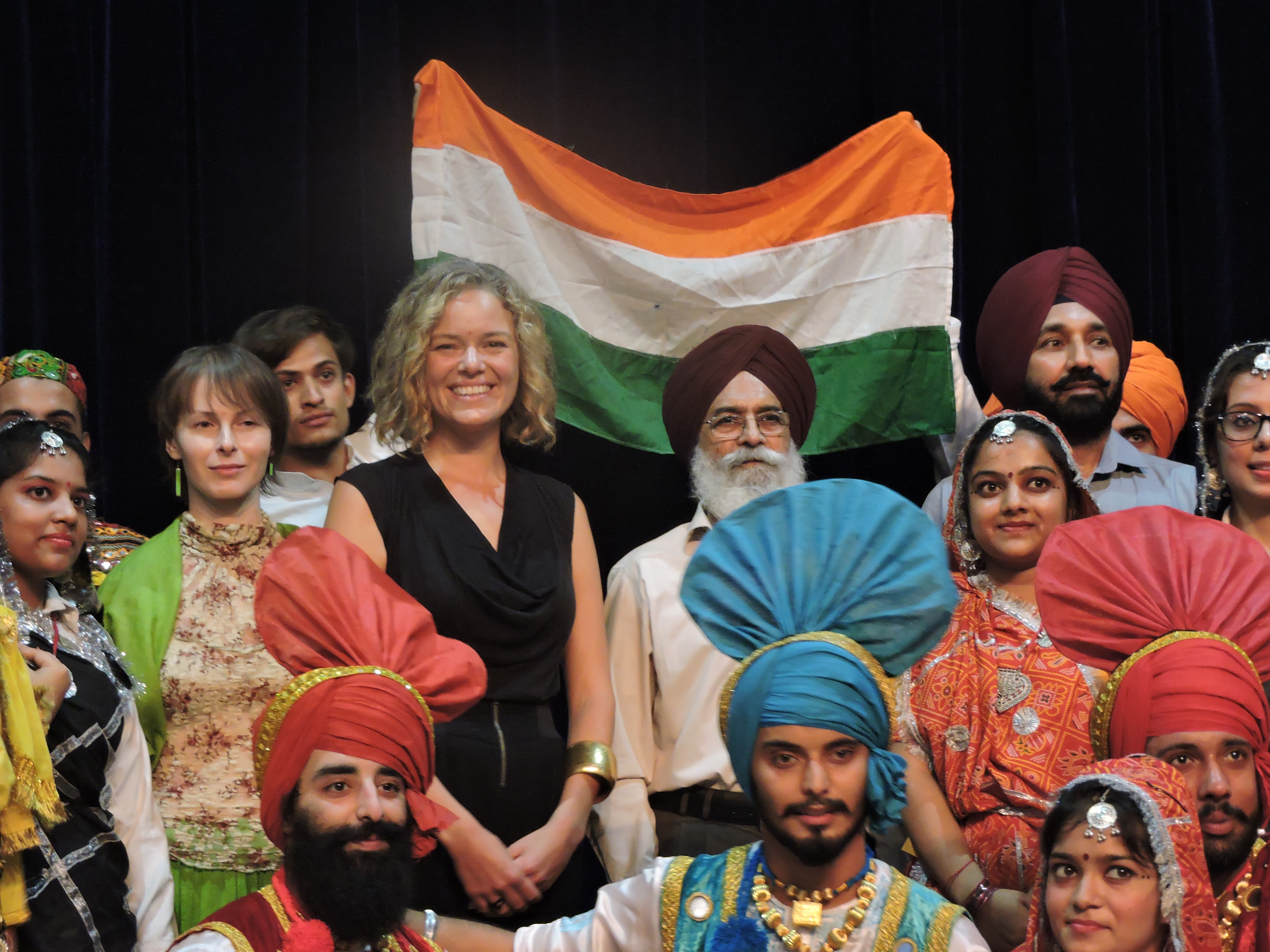 Katherine Maher and eminant poet Surjit Patar with cultural group, at Wikiconference India 2016